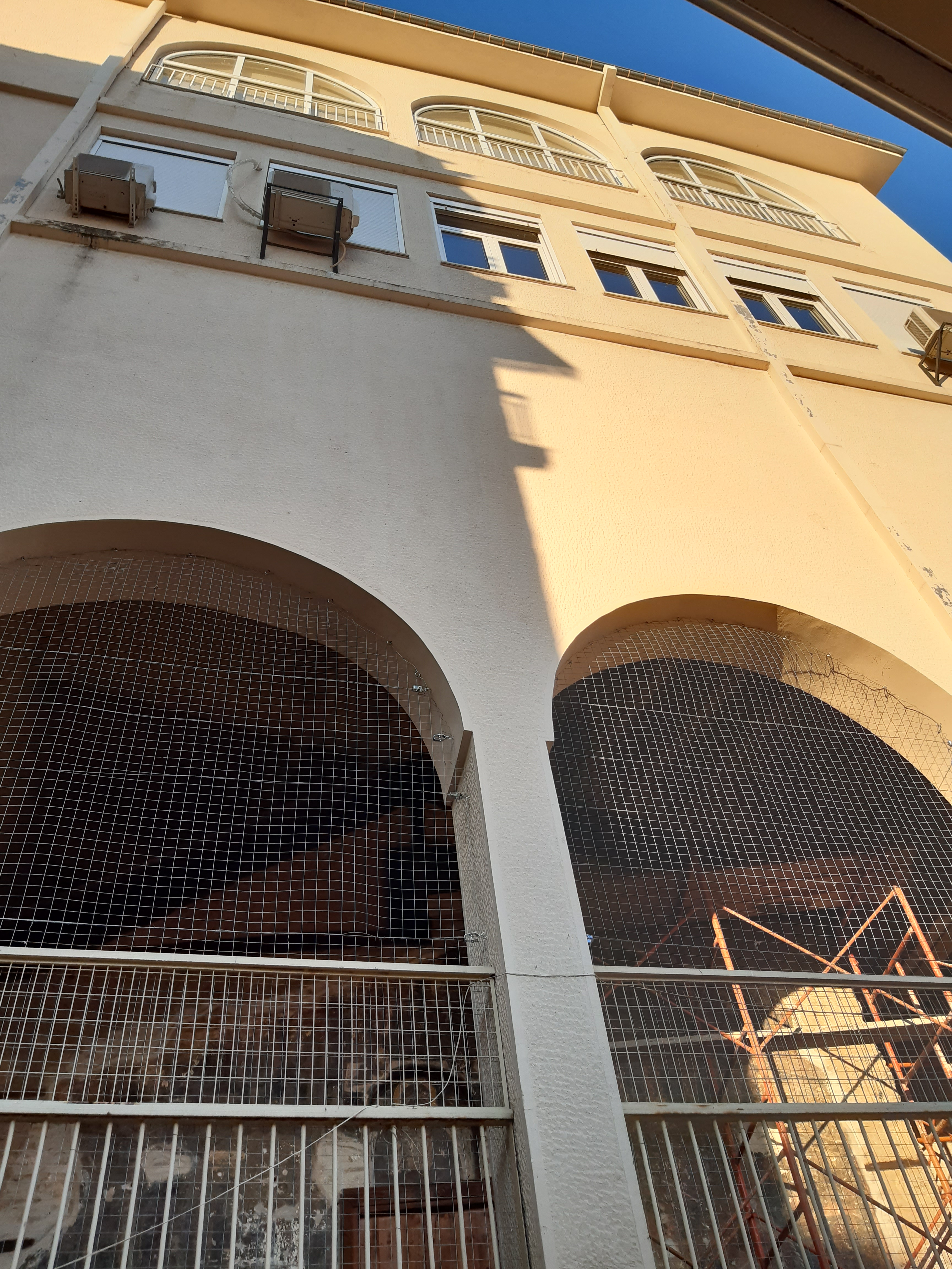 Saint Mary of Apostolakis Church